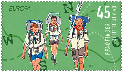 100 years of scouting Ausgabepreis: 45 Cent